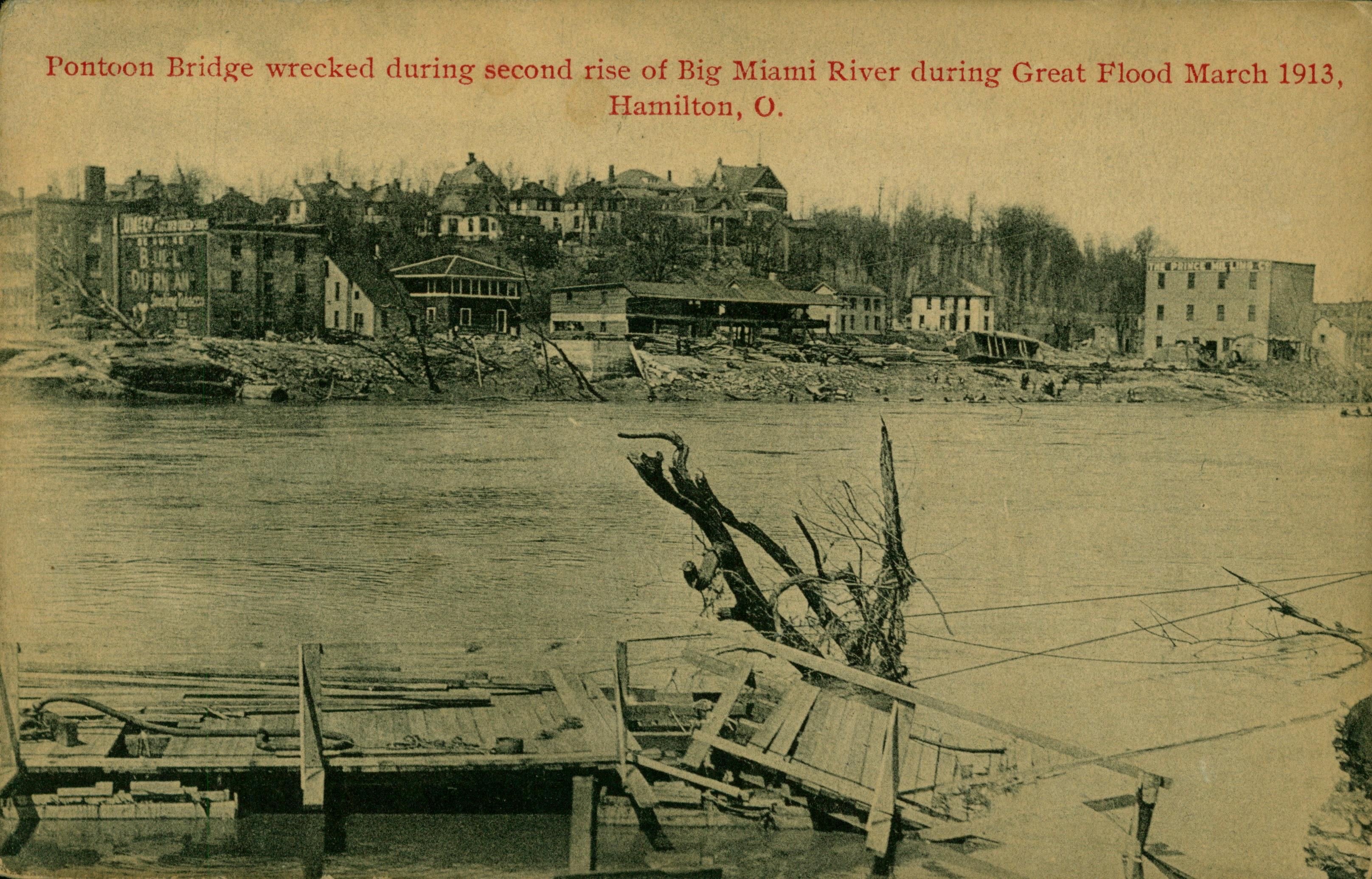 Persistent URL: Subject: Floods; Flood damage; Bridges; Pontoon Bridges; Bridge Failures; Ohio--Hamilton; miami digital collections; bowden postcard collection